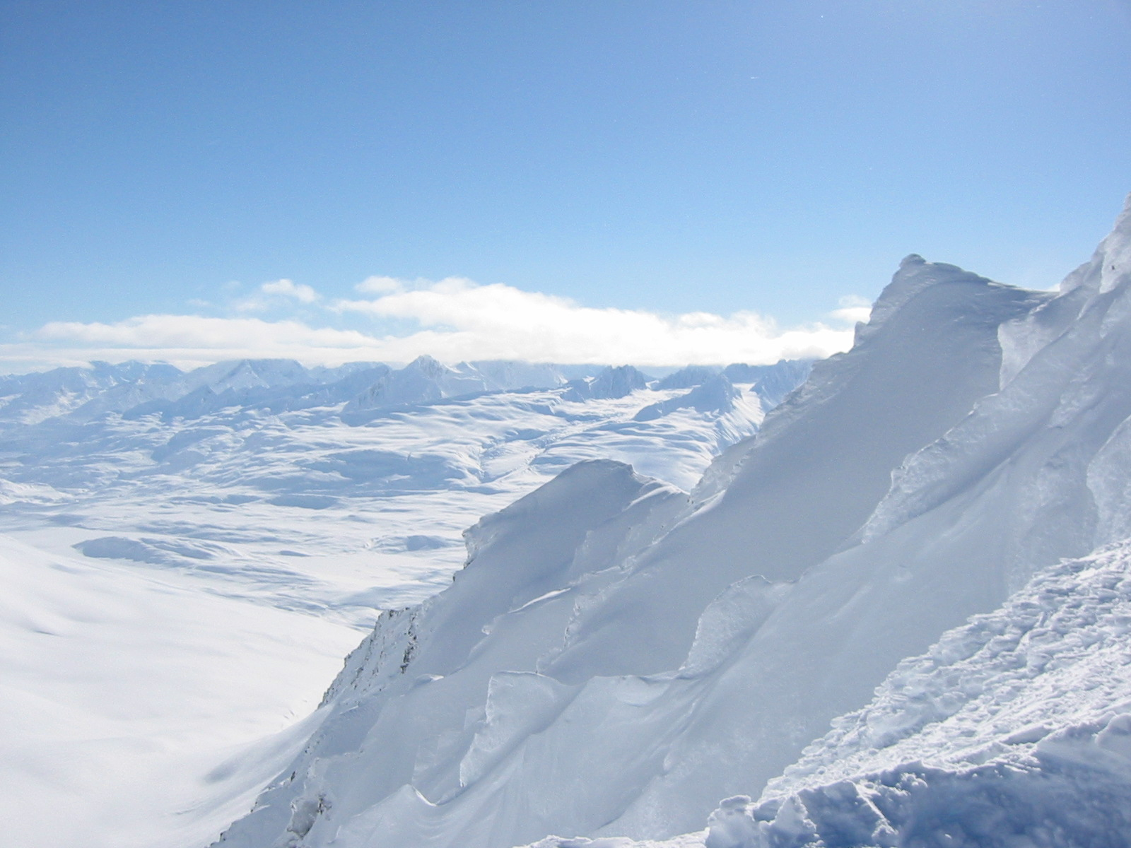 Chugach Mountains, Alaska